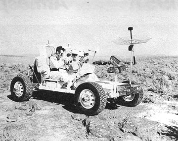 Photograph taken at Nevada Test Site, Area 20, near Schooner crater. Apollo 16 astronauts train in the Lunar rover in terrain simulating the moon.